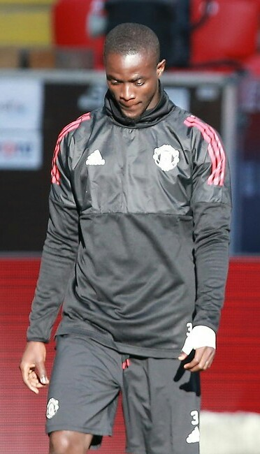 Eric Bailly